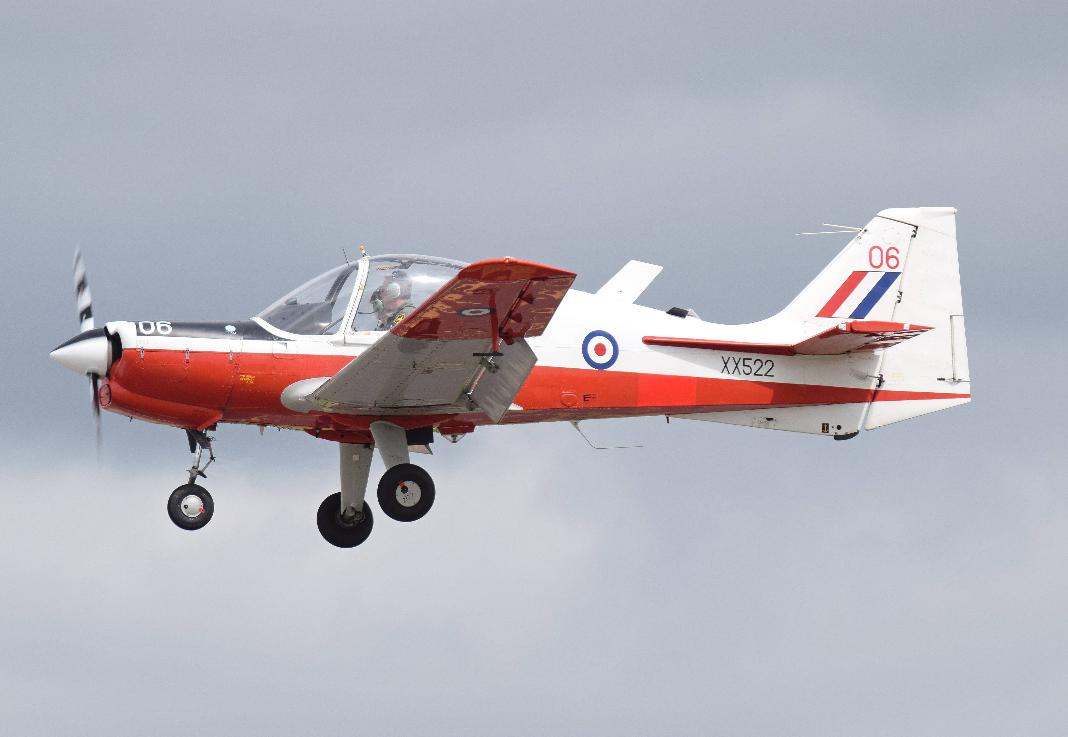 Scottish Aviation Bulldog XX522 arrives at RIAT Fairford, England. Built in 1973 for the RAF it is now privately owned as G-DAWG but still carries the RAF code. The RAF sold their Bulldogs when they changed to the Grob Tutor basic trainer.